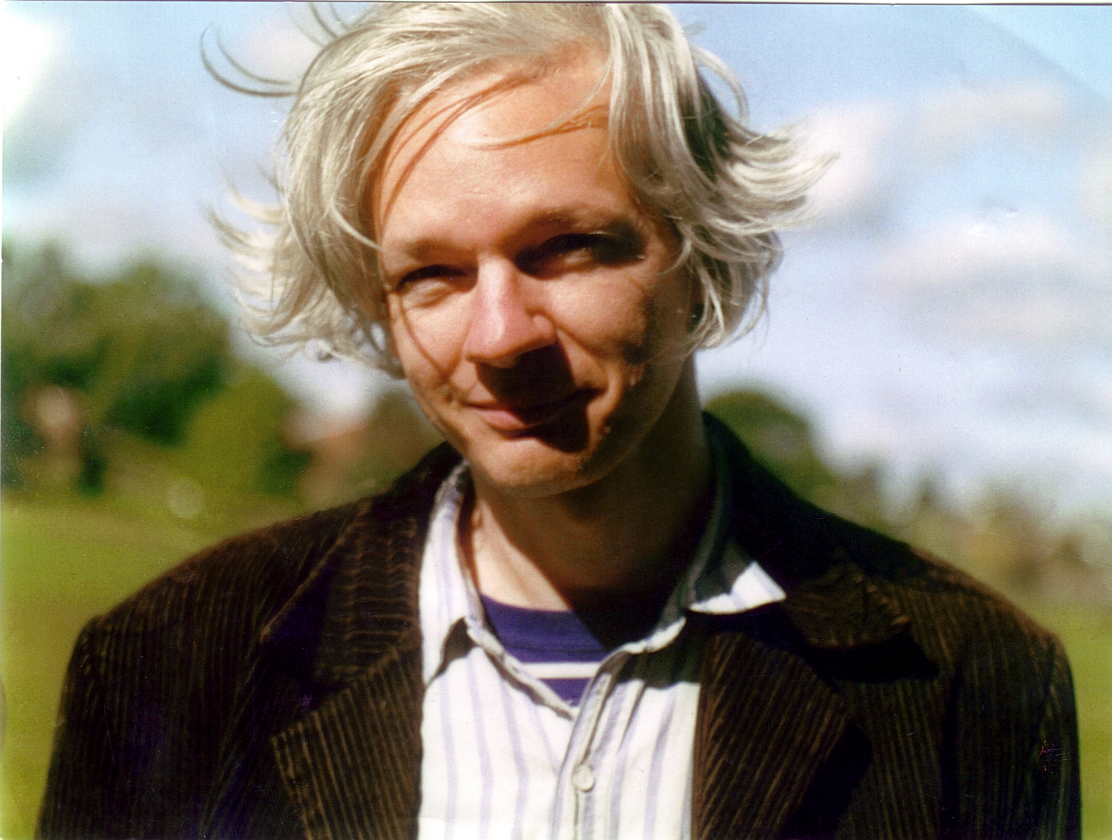 Julian Assange, photo ("sunny country background"[1])